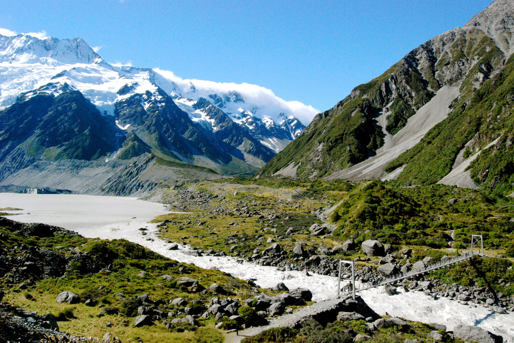 Suspension bridge along Hooker Valley Track, spanning Hooker River downstream of Mueller Glacier Lake.